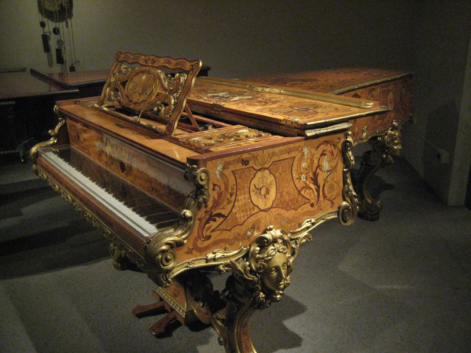 Grand piano, England (London), 19th century